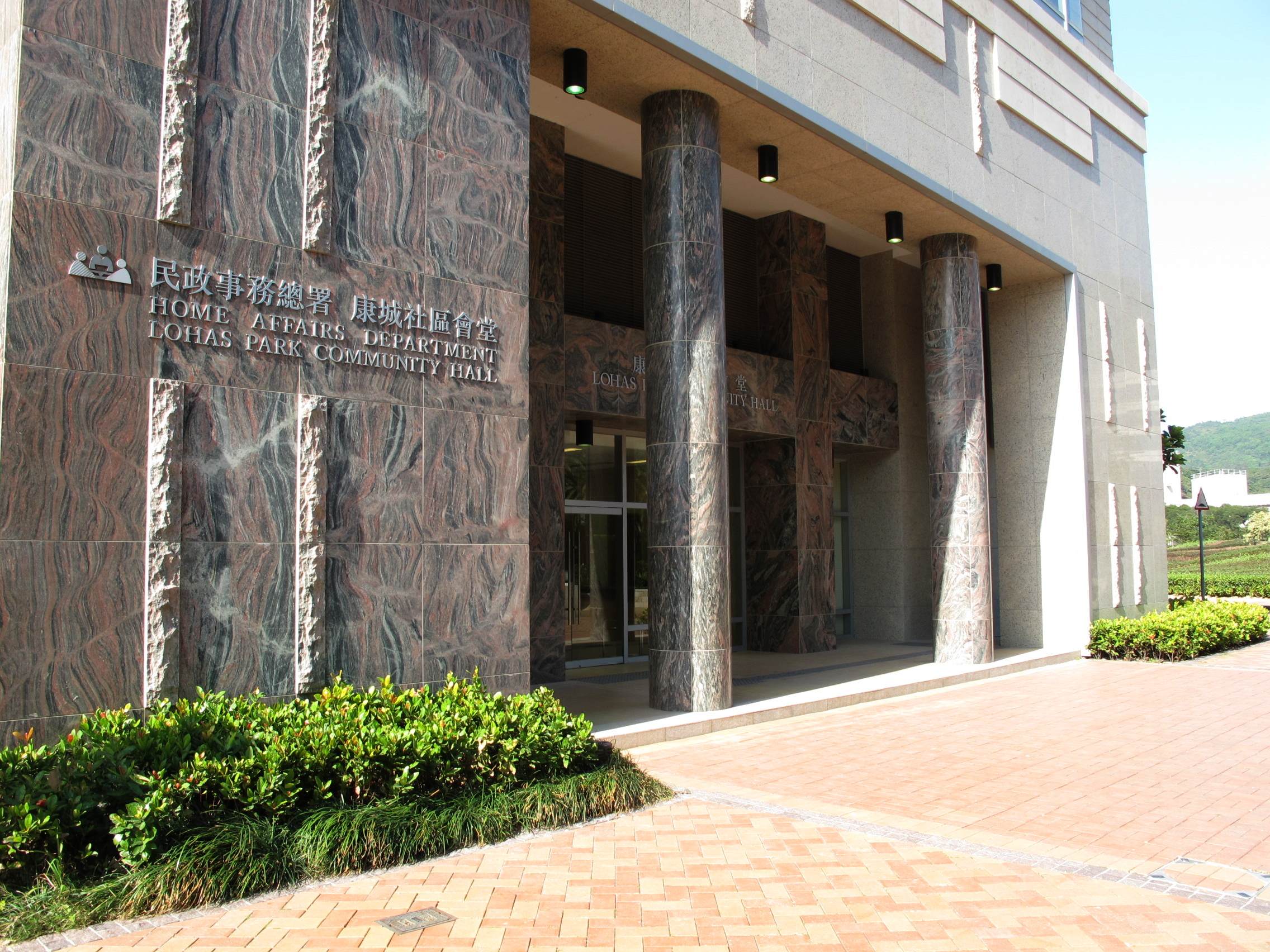 Lohas Park Community Hall 康城社區會堂